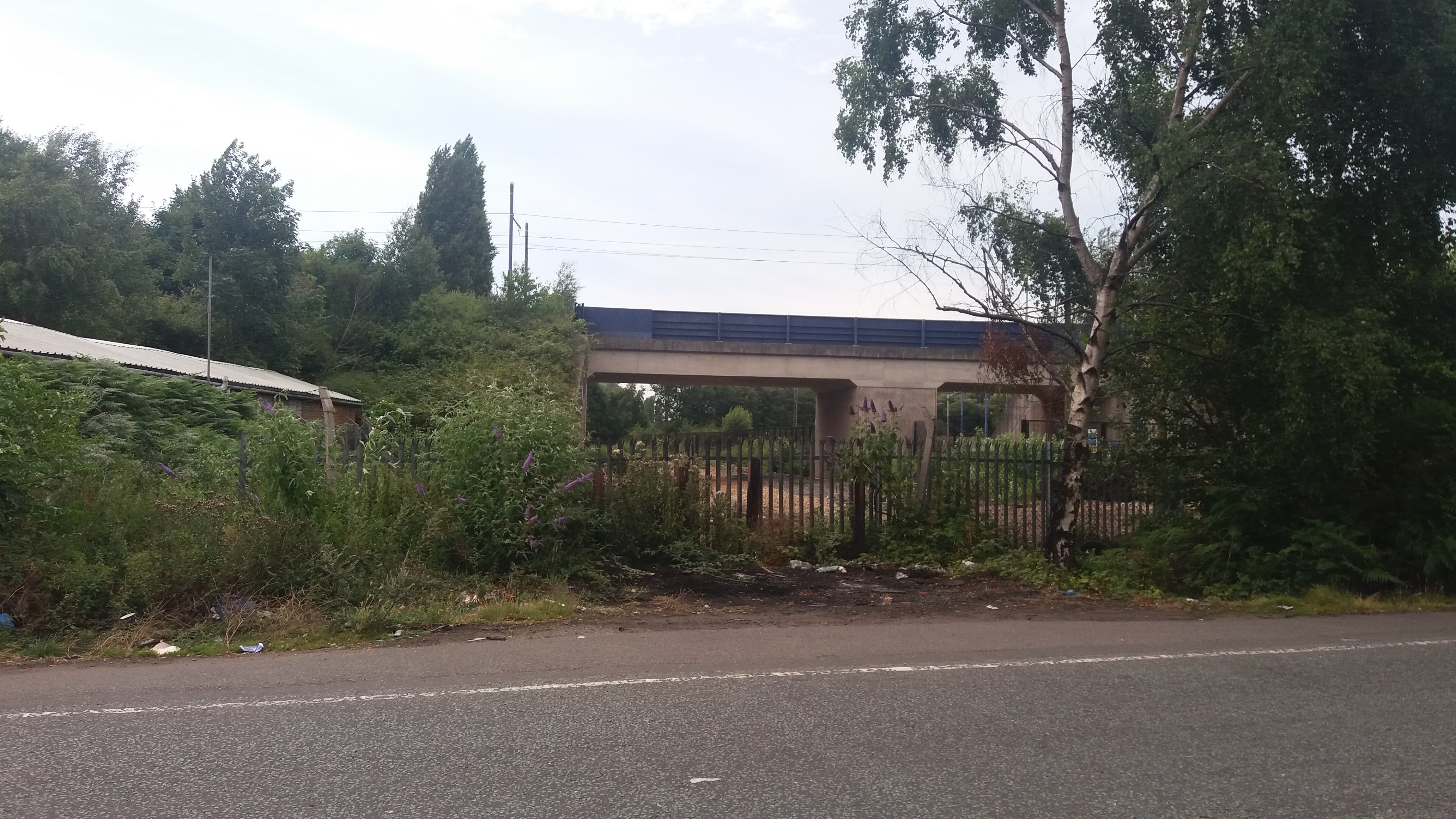 My own.